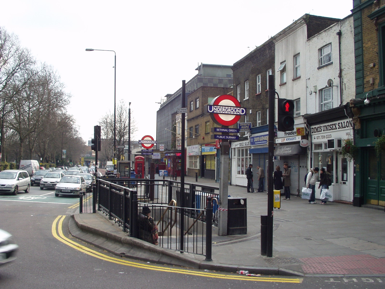 Bethnal Green Tube entrance